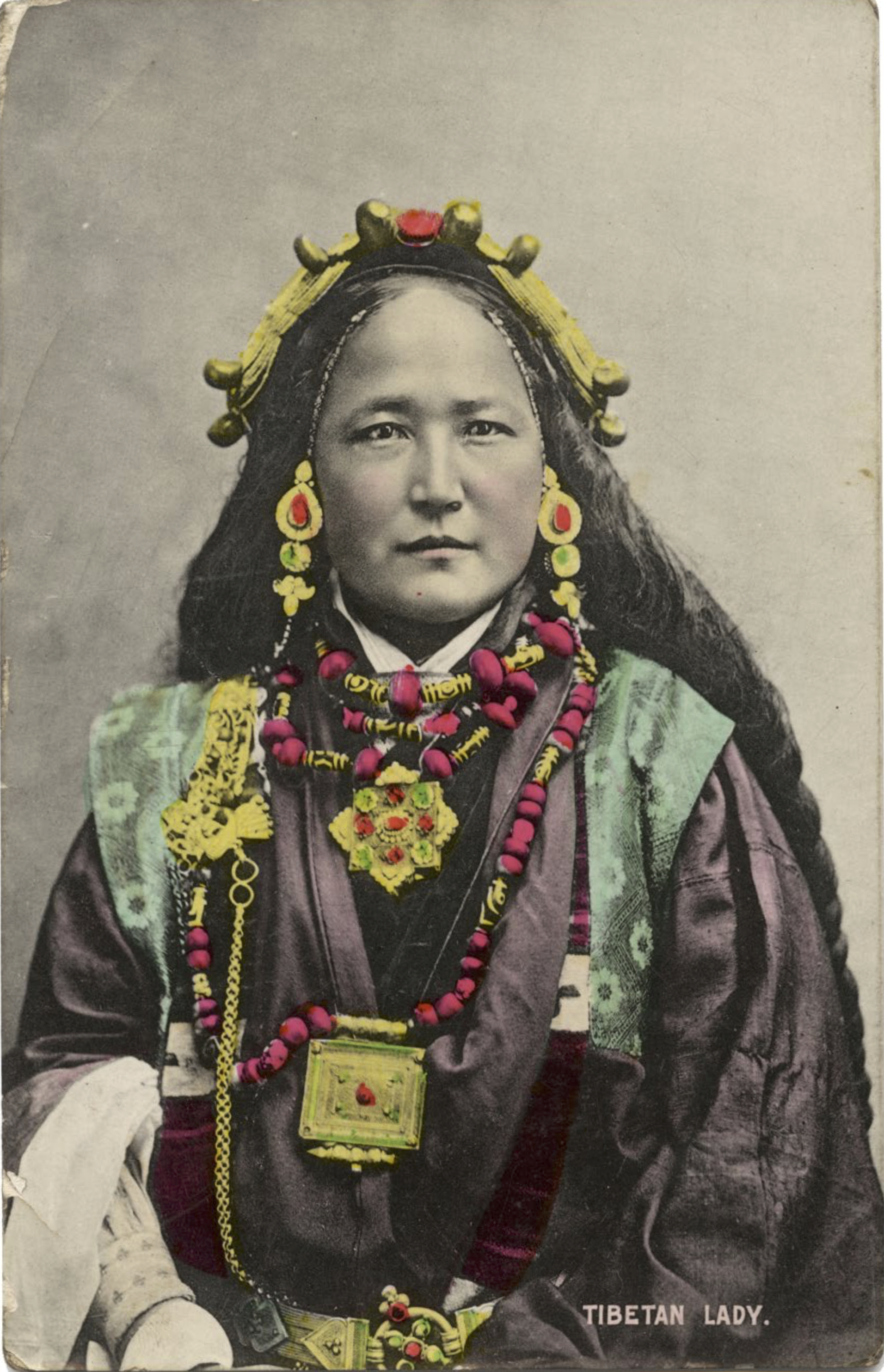 Studio portrait of Ani Chokyi taken at Thomas Paar studio in 1890s and turned into a color postcard around 1900 that appealed to British tourists in Darjeeling. Tibetan femininity was shown in this photo through fine fabrics, expensive ornaments and amulets, signaling high social status, respectability, and devotion to Buddhism. Ani Chokyi is the head of a prominent Tibetan-Sikkimese family, the owner of a number of businesses (including a brewery), and one of the richest women in Darjeeling. She is the wife of Ugyen Gyatso. They accompanied Sarat Chandra Das on his secret journey to Lhasa. She is the paternal aunt of Sonam Wangfel Laden who became the local chief of police later.